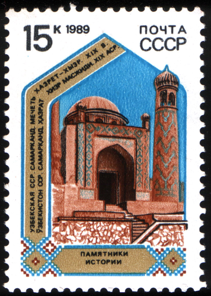 Stamp of USSR, Historical Monuments. Khazret-Khyzr mosque, Samarkand, 1989